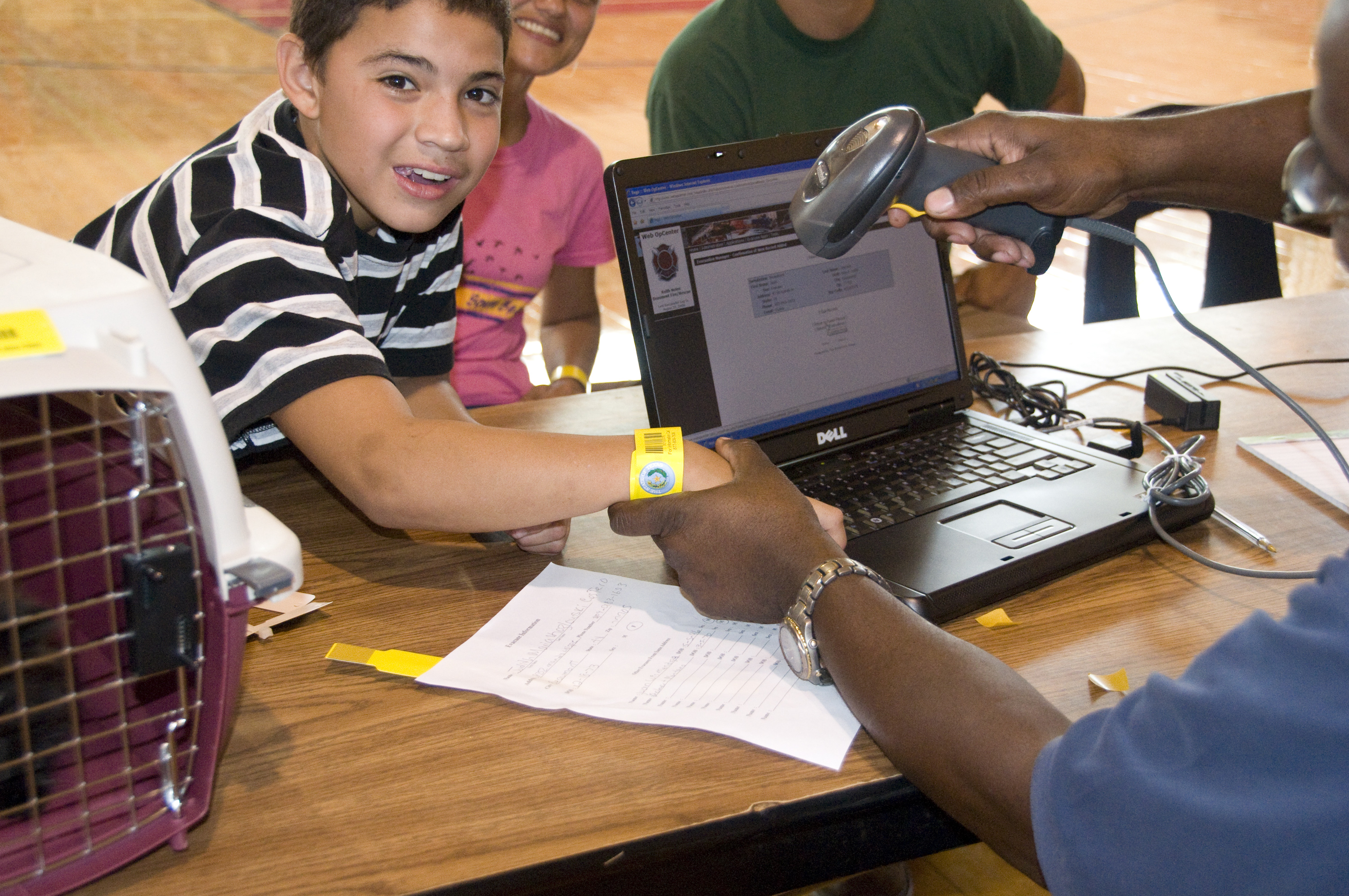 Beaumont, TX, August 31, 2008 -- A resident of Beaumont, TX has his arm band scanned as part of the tracking system being used to identify residents using the transportation services offered by the city of Beaumont to evacuate the city in advance of Hurricane Gustav's landfall. Photo by Patsy Lynch/FEMA